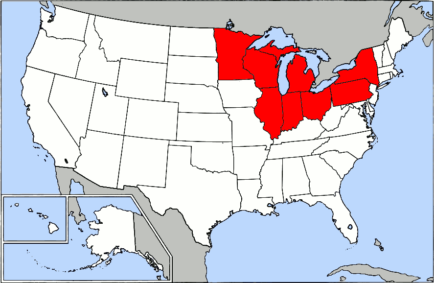 Map of USA highlighting the Great Lakes region.